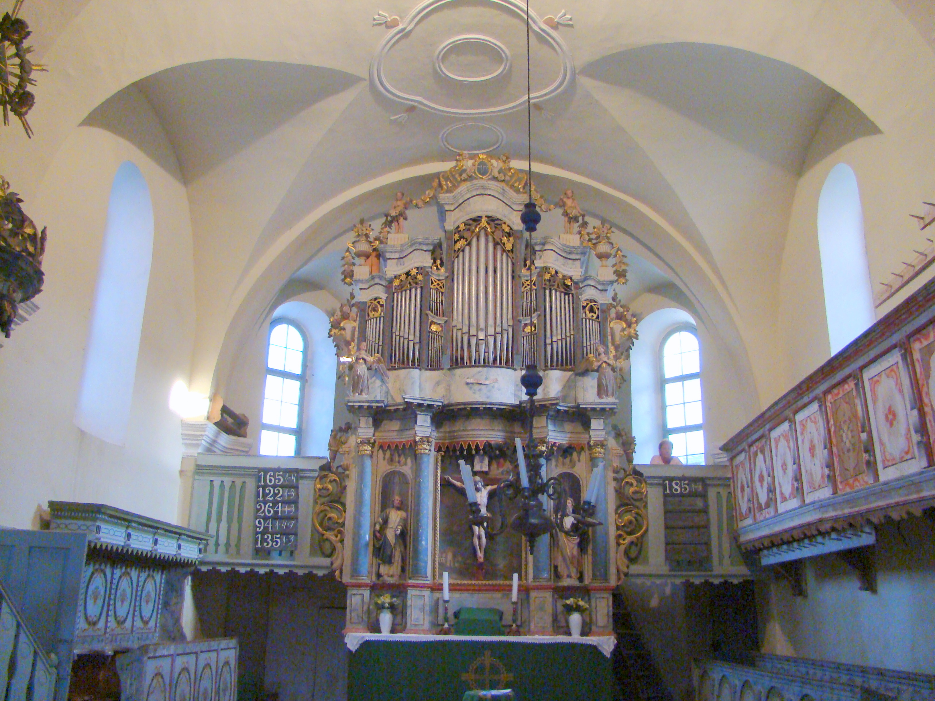 Fortified church in Homorod, Brașov County, Romania